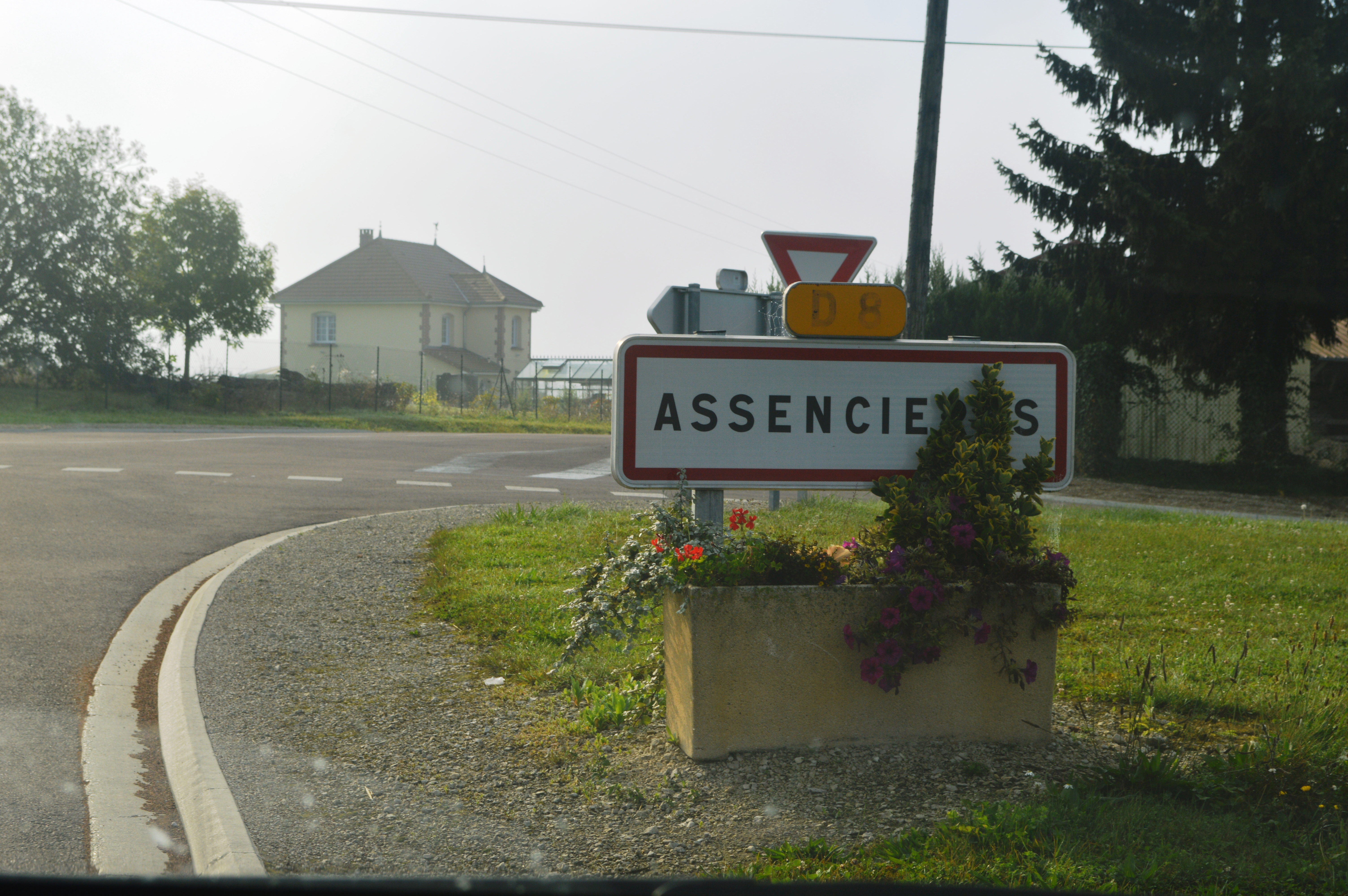 The entry to Assencières